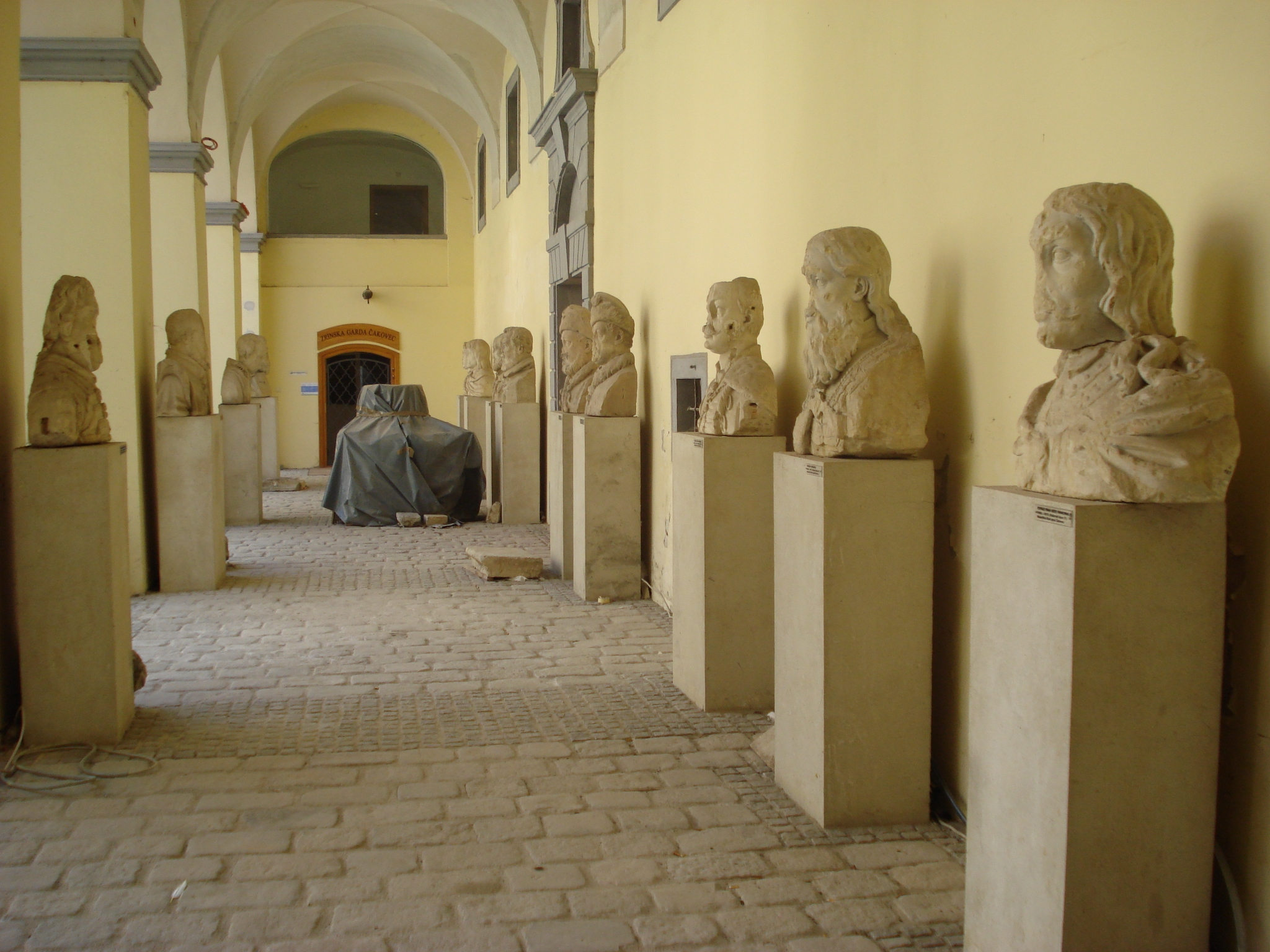 Busts in the Lapidarium of the Medjimurje County Museum, Čakovec, Croatia